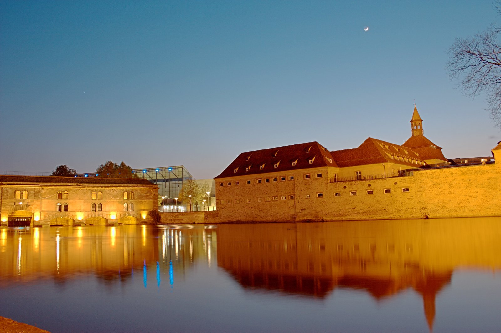 This photo shows the École nationale d'administration (ÉNA) and MAMCS buildings in the Petite France neighbourghood of Strasbourg, as seen from the ponts couverts bridge.